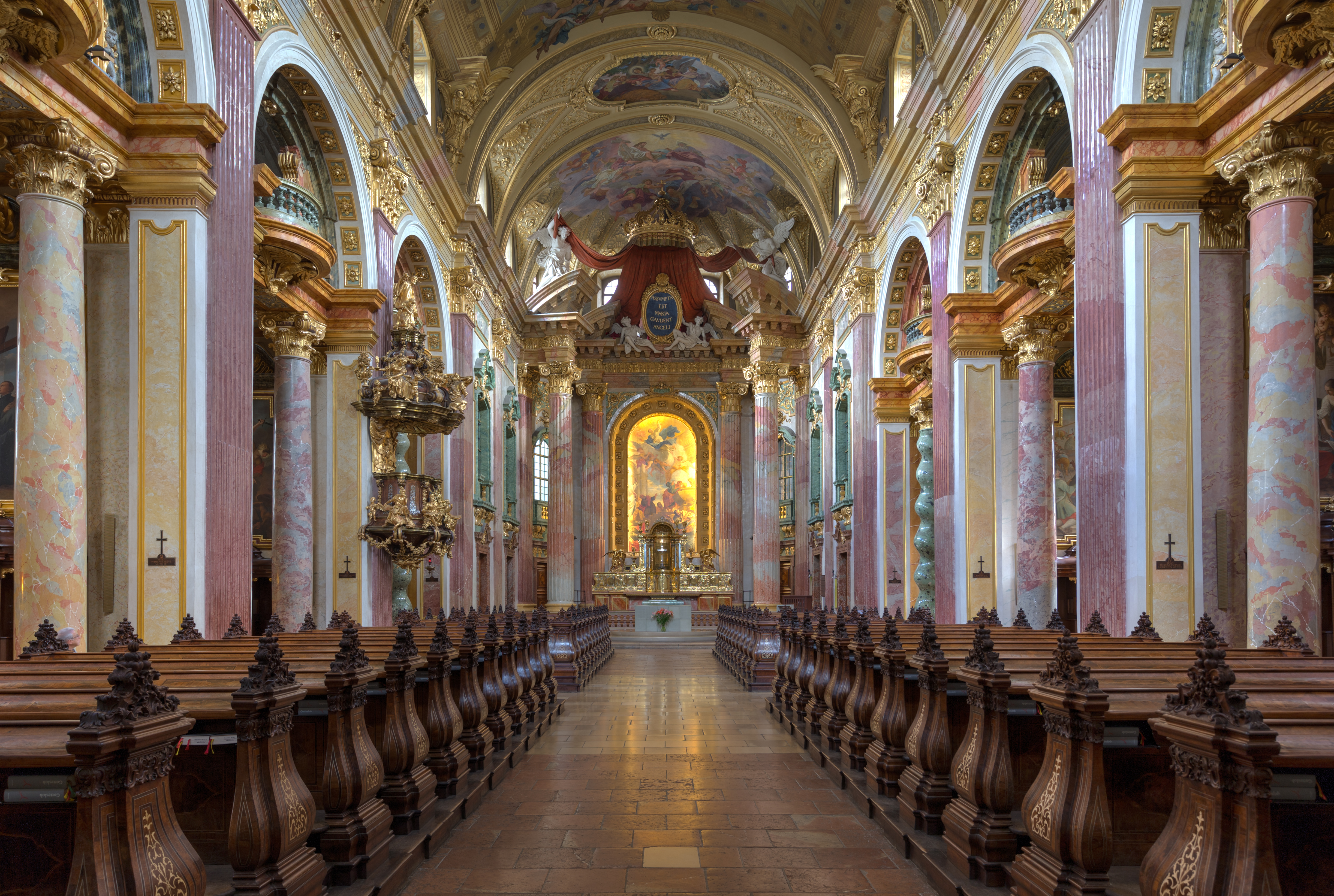 Jesuit Church, Dr.-Ignaz-Seipel-Platz, Vienna, Frescoes by Andrea Pozzo during his time in Vienna (1702-1709).